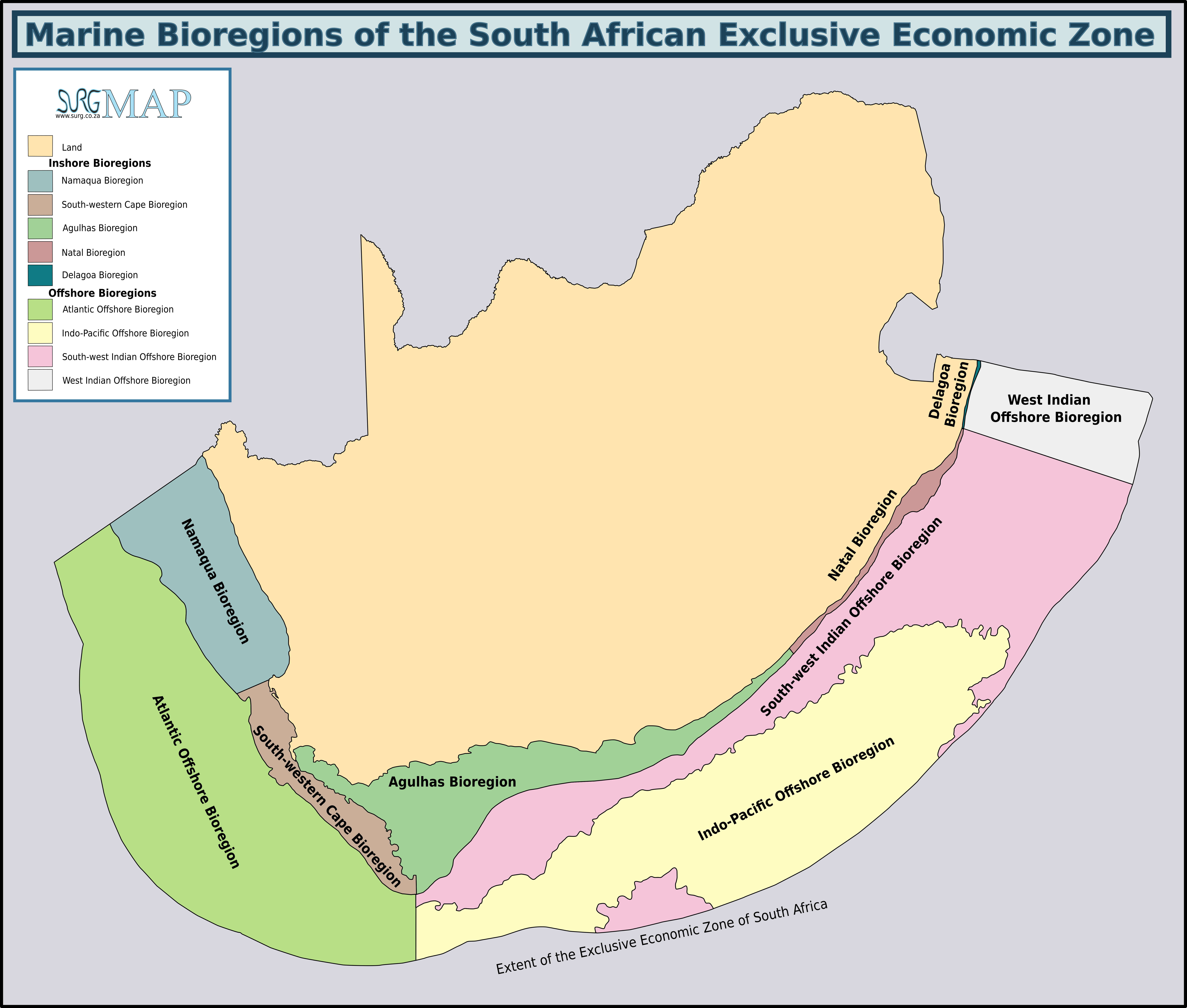 Map showing the marine bioregions of the South African coast within the exclusive economic zone